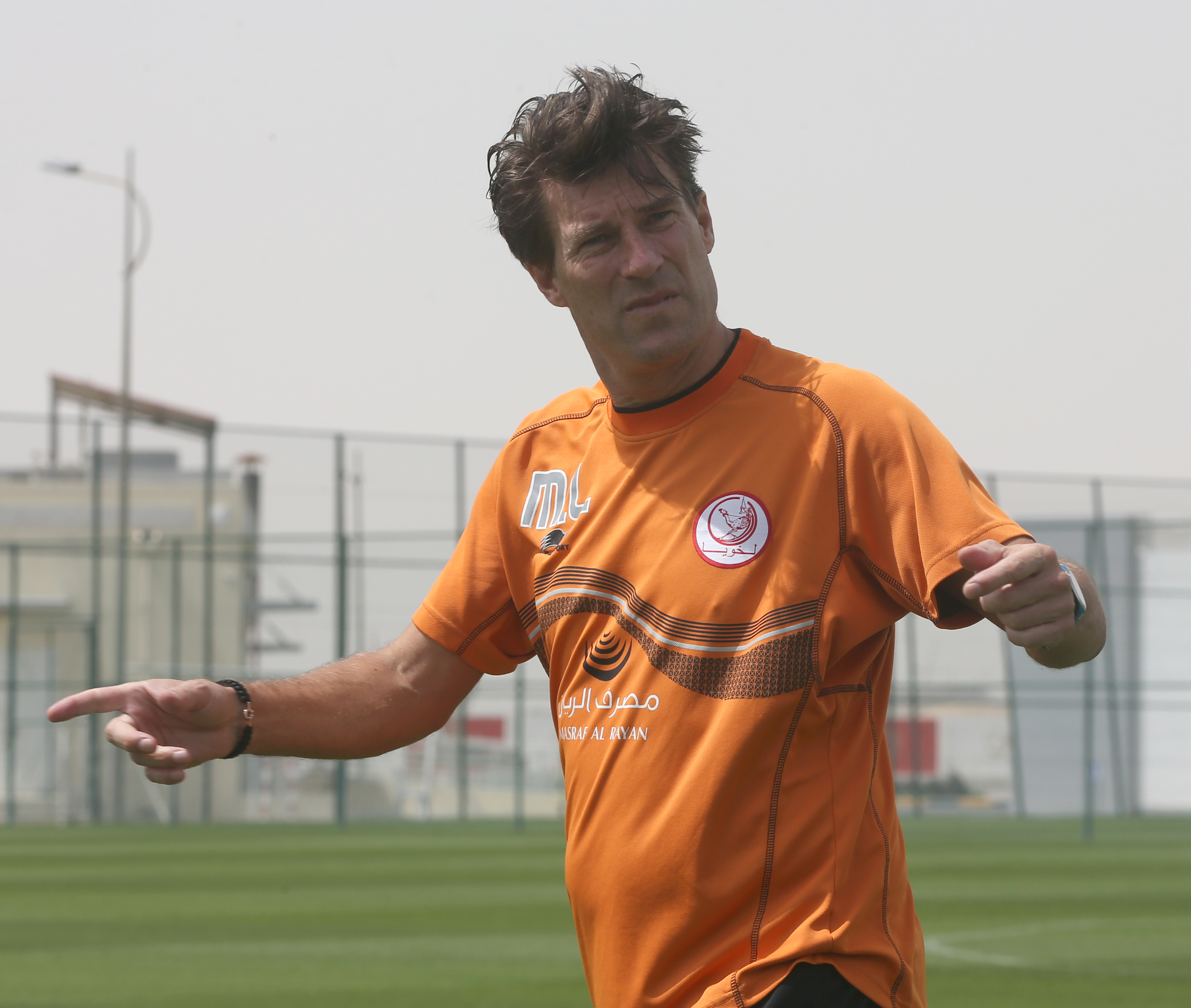 Qatar Stars League side Lekhwiya's coach Michael Laudrup during his team's training session in Doha.